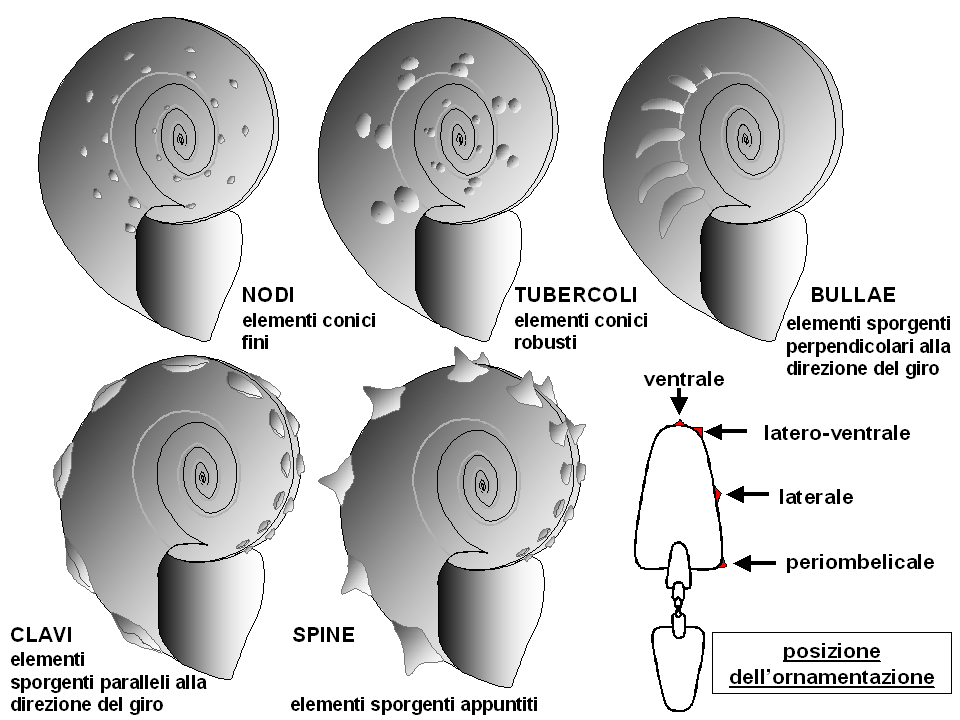 principal types of decoration occurring on the ammonites shell. text in italian